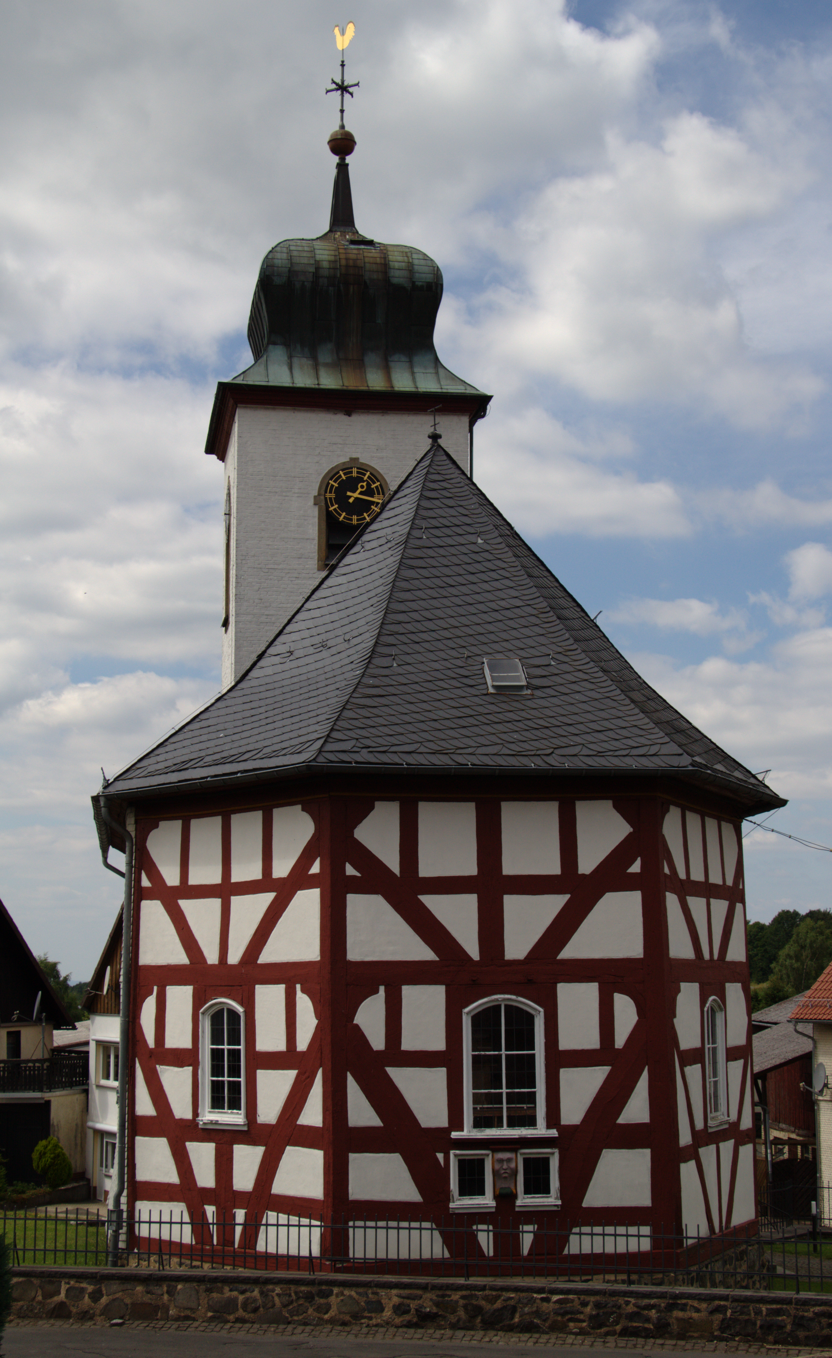 Protestant church in Schotten Breungeshain, Hesse, Germany